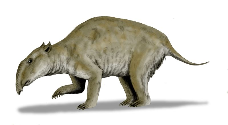 Palorchestes azael, a marsupial tapir from the Pleistocene of Australia, pencil drawing, digital coloring